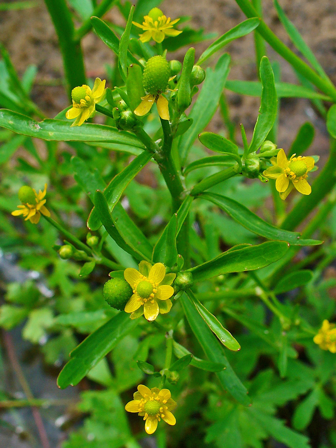 Ranunculus sceleratus, Ranunculaceae, Cursed Buttercup, Celery-leaved Buttercup, flowers.